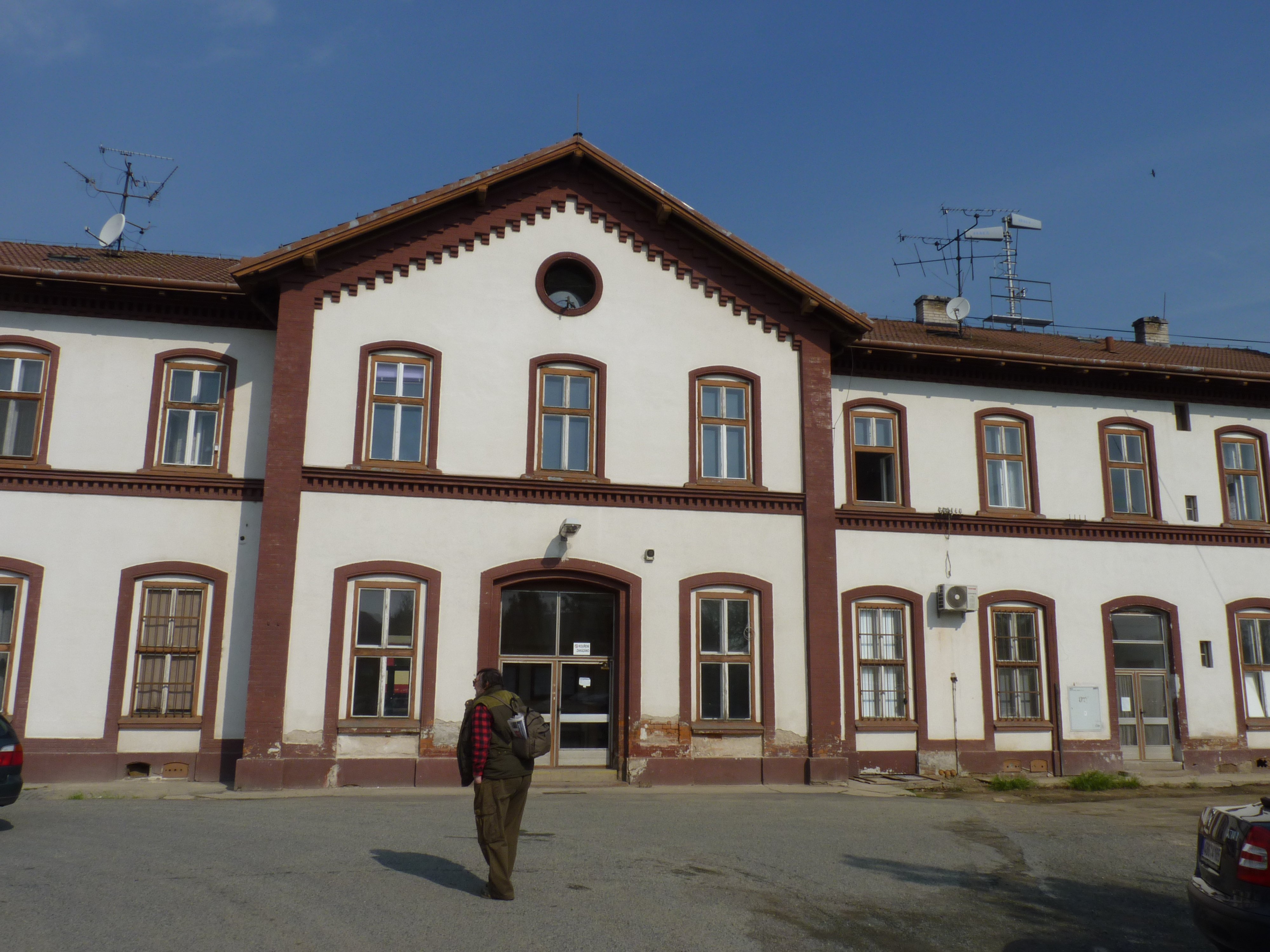 Train station. Moravské Bránice, Brno-Country District, South Moravian Region, Czech Republic